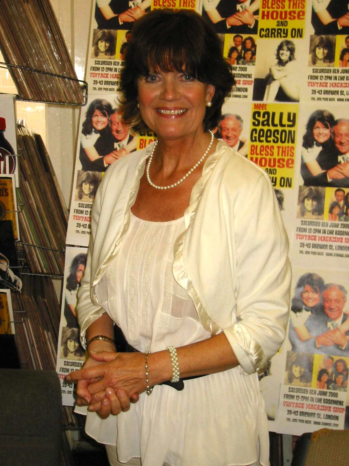 Sally Geeson, as phtographed by Vintage Magazine